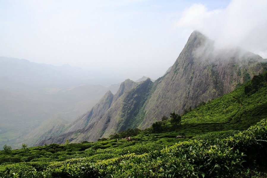 Taken from world's highest tea plantation Kolukkumala